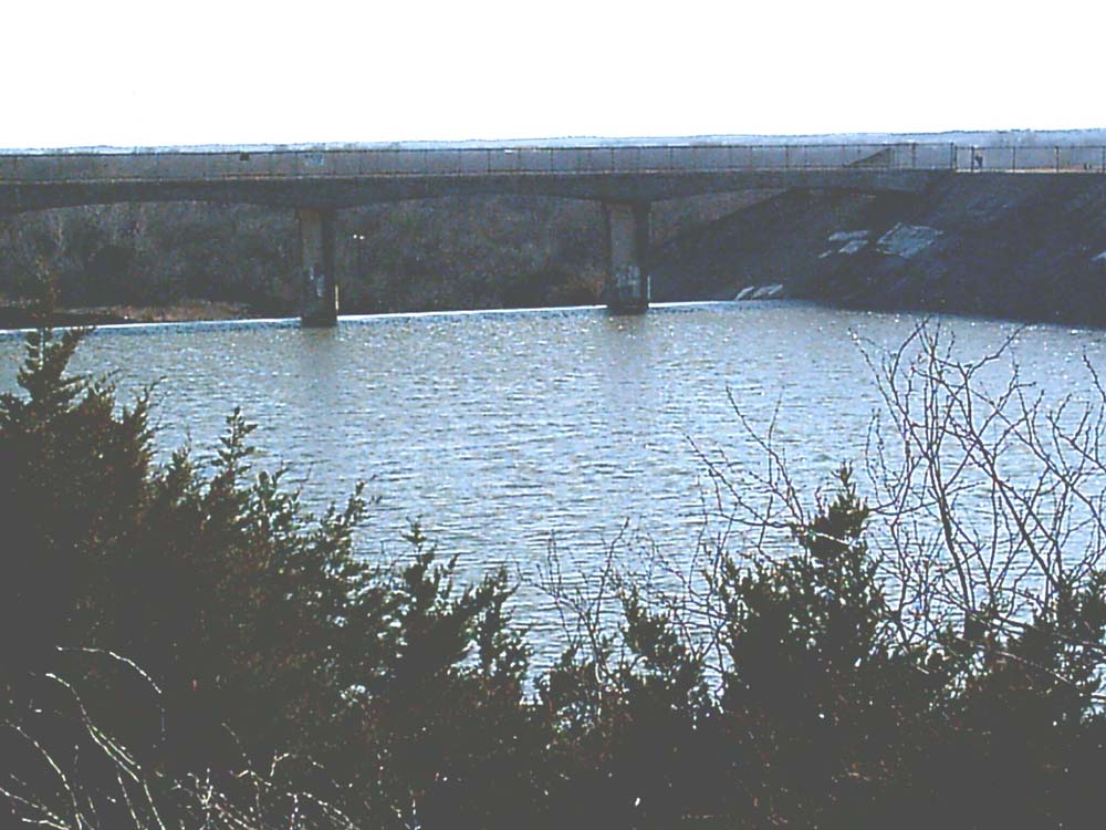 Lake Pat Cleburne Dam in Johnson County Texas. Date: February 03, 2007 Photo taken by Michael R. Denny.